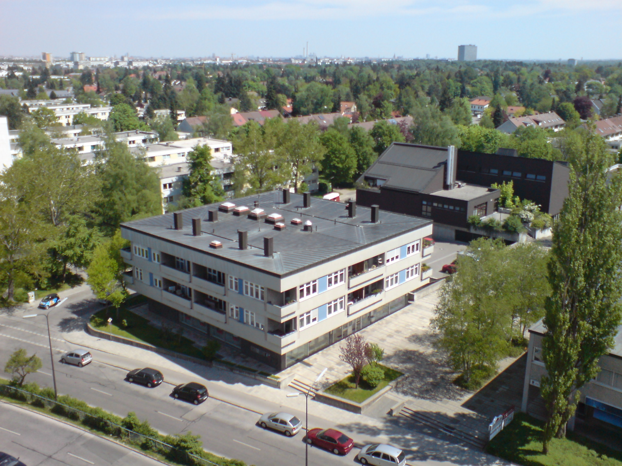 Sight from 10th Etage of the DEBA-House